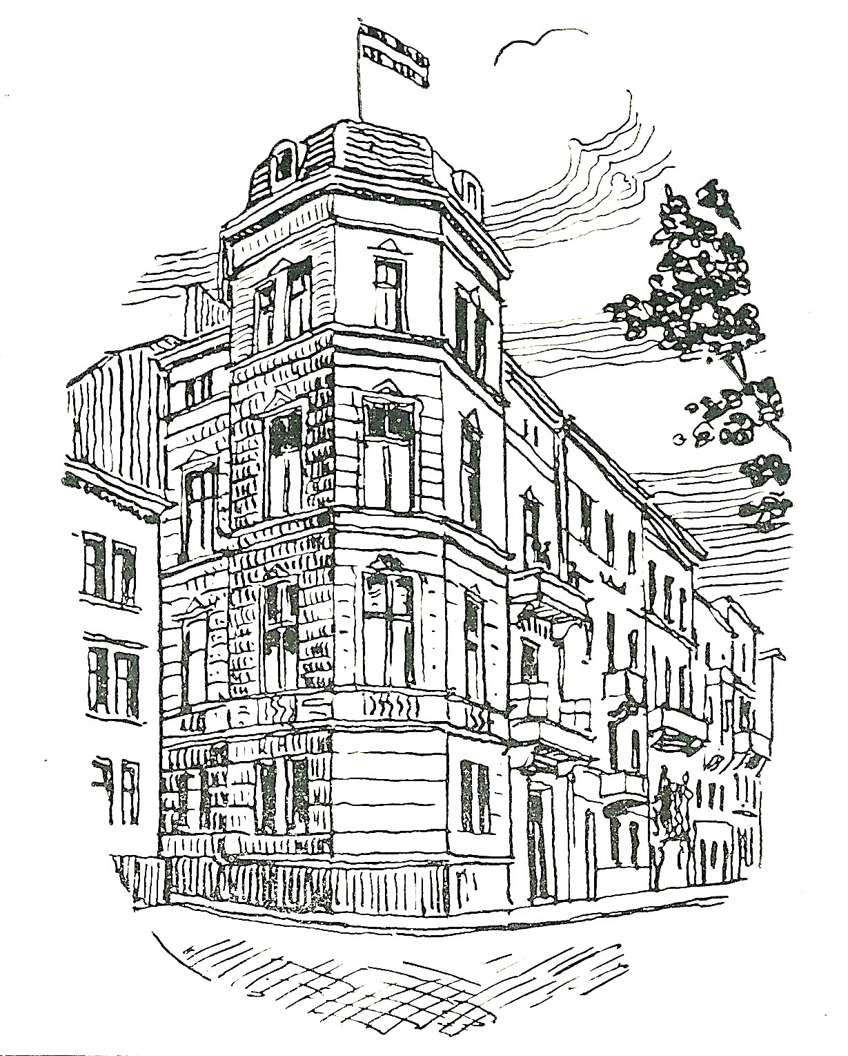 Former house of student fraternity Corps Rhenania Bonn in Bonn/Germany, Rheinwerft 14; Drawing by Hans-Wolff von Ponickau